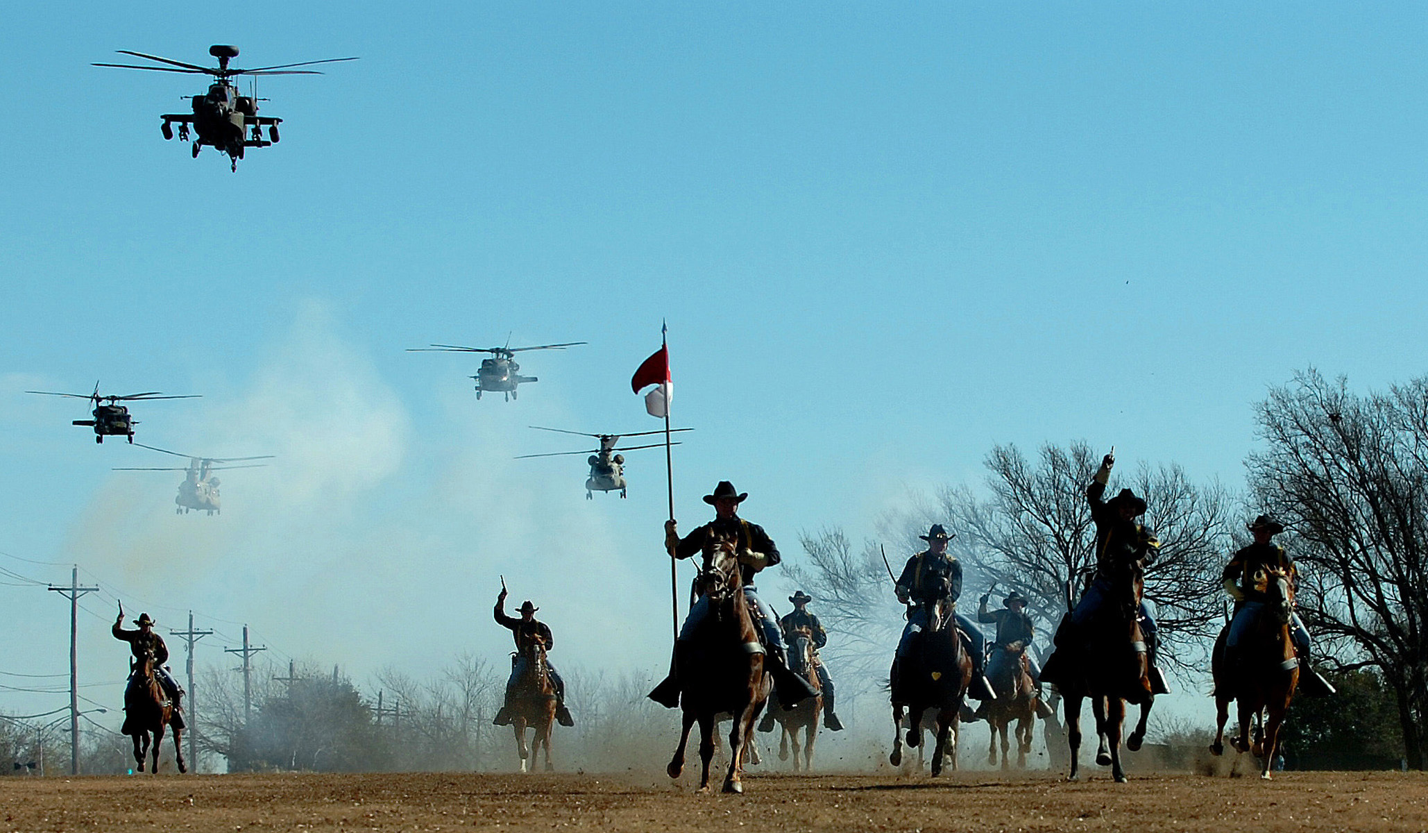 Following the casing of the brigade, battalion and division colors, the 1st Cavalry Division Horse Detachment Soldiers perform a cavalry charge accompanied by a fly-over performed by the 1st Cavalry Division Air Cavalry Brigade on Fort Hood's Cooper Field, Dec. 12.